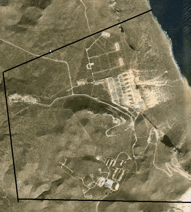 NATO Missile Firing Installation, Crete